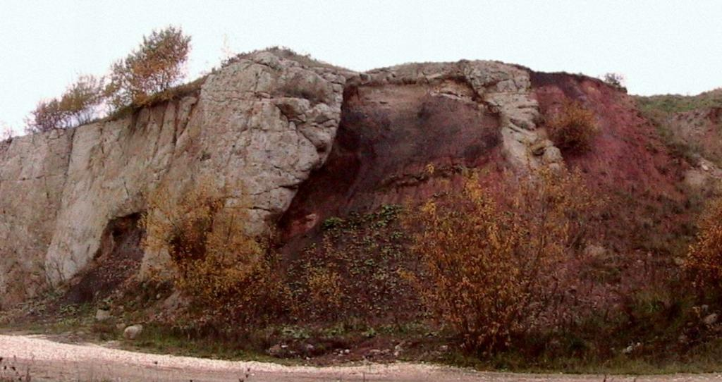 A thick layer of Suevite (light gray) over blocks of Bunte Breccie (here mostly made up of reddish clay) at the Aumühle quarry. The quarry is located just outside the northeastern rim of the Ries crater.